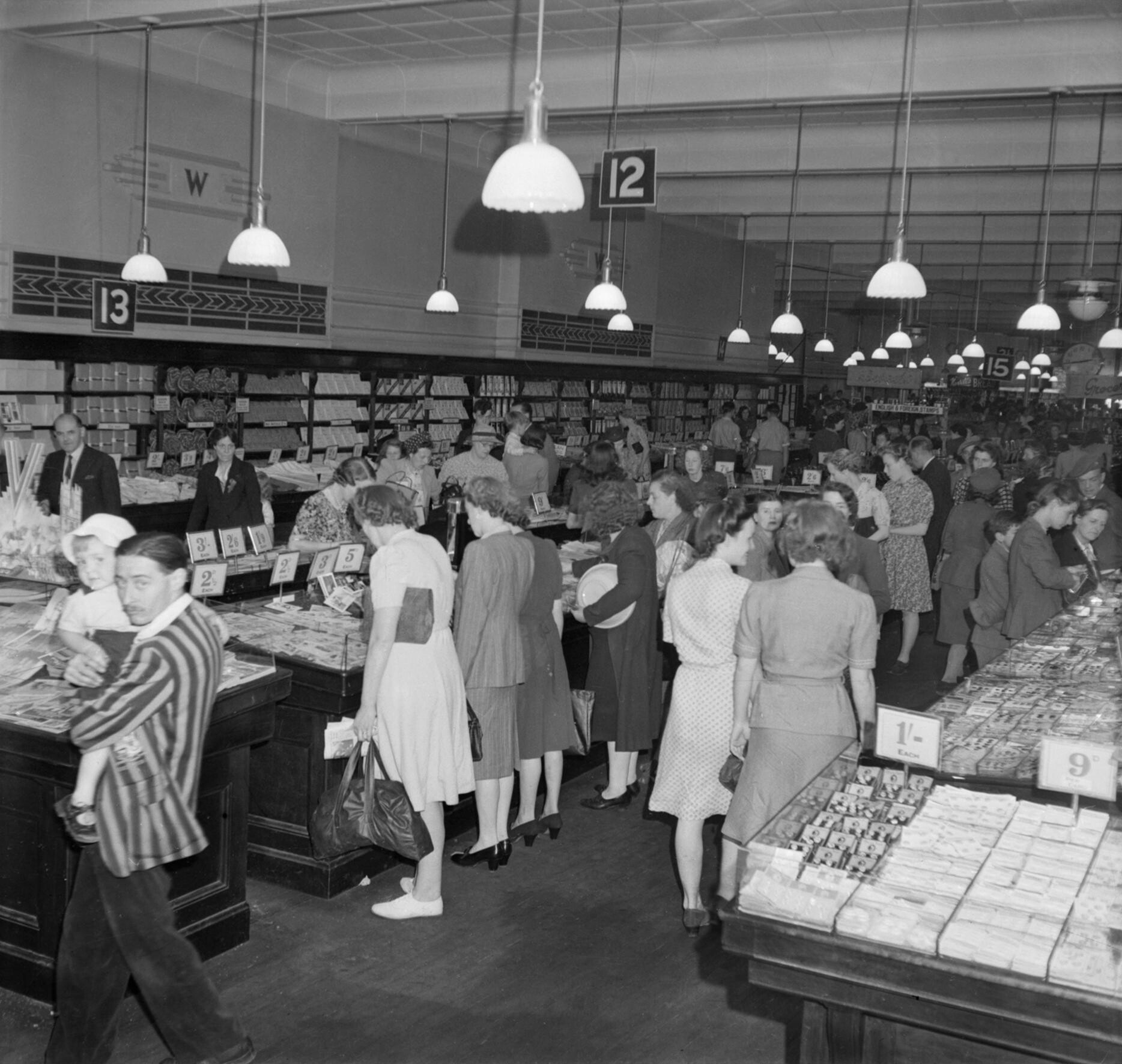 A Picture of a Southern Town- Life in Wartime Reading, Berkshire, England, UK, 1945 A general view of shoppers in the busy Woolworth's store on Broad Street in Reading.